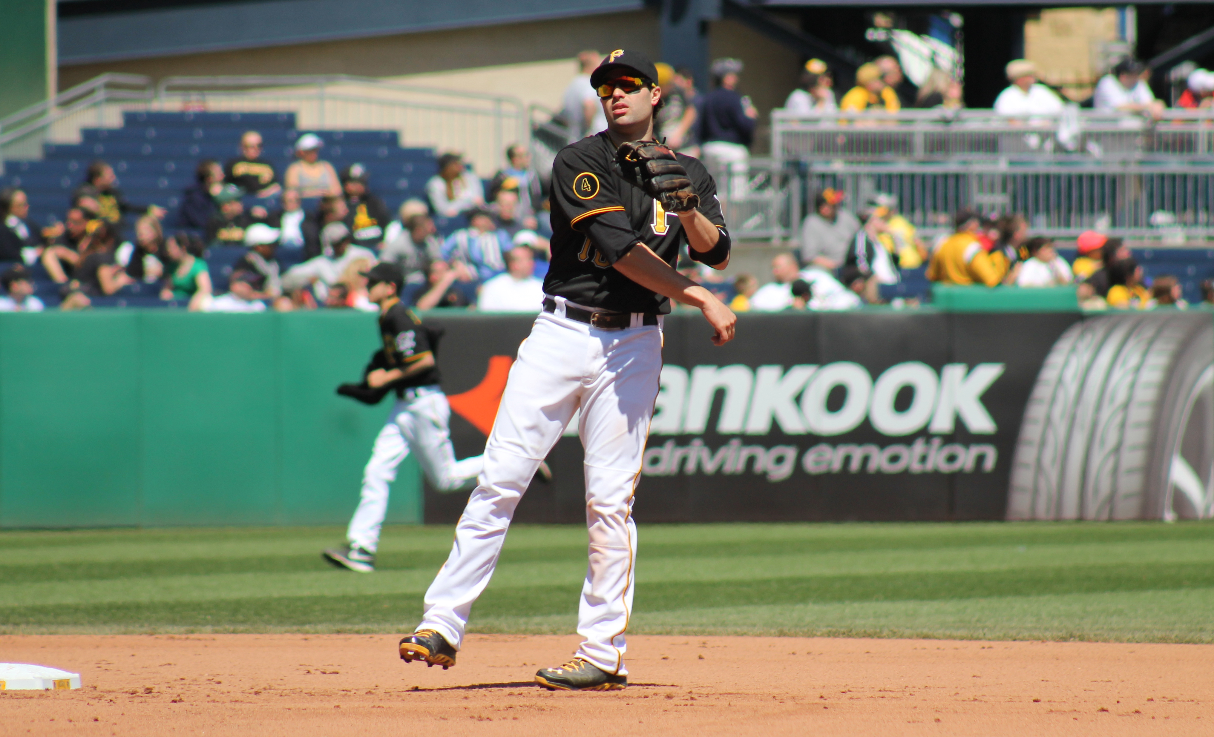 Neil Walker warms up at second base for the Pittsburgh Pirates.